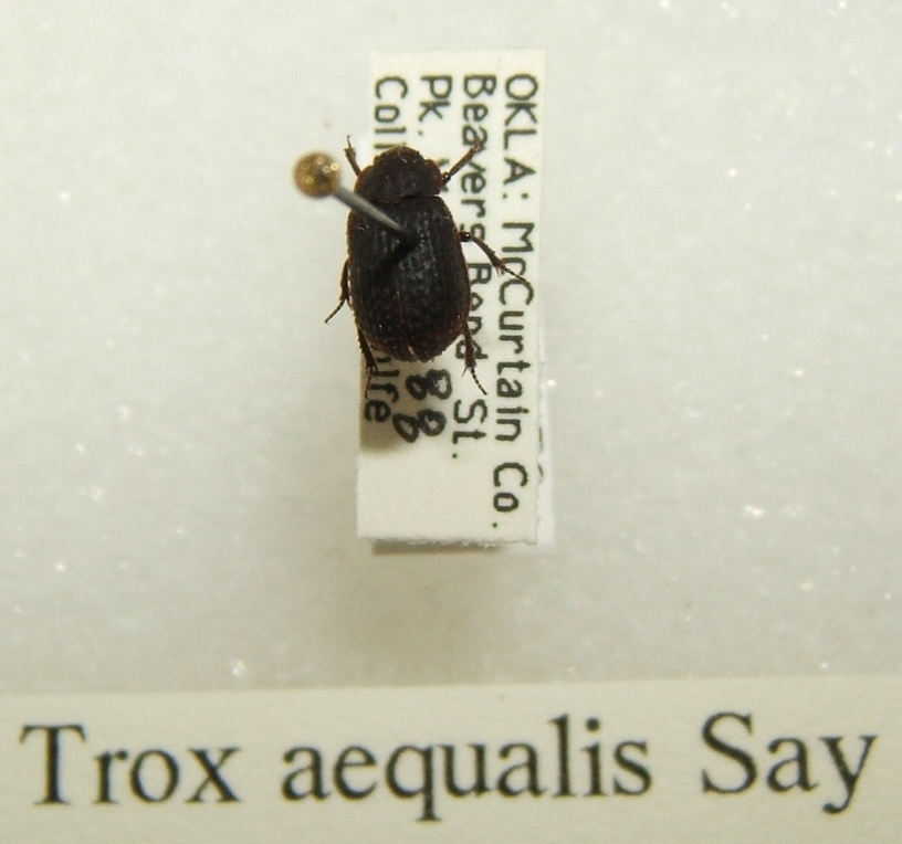 Trox aequalis adult taken by Shawn Hanrahan at the Texas A&M University Insect Collection in College Station, Texas. Cropped version: Trox aequalis sjh.cropped.jpg